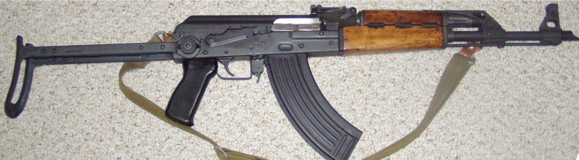 This is the semi-automatic civilian version of the Yugoslavian Zastava M70AB2, built by Century Arms International.